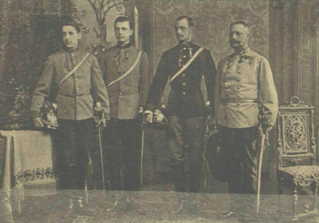 Archduke Karl Salvator, Prince of Tuscany with three sons (Leopold, Franz, Albrecht)